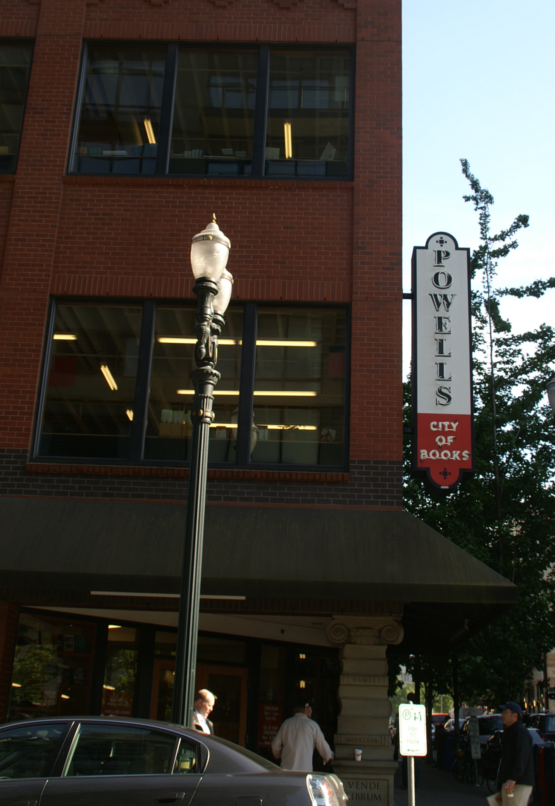 Powell's City of Books NW Entrance- Portland Oregon -- 2008 May